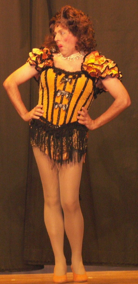 Euan McIver appearing in Pantomime